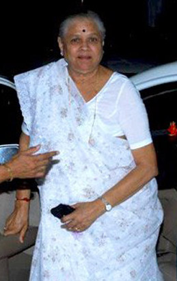 Jayawantiben Mehta arrives at the screening of the film My Name is Khan.